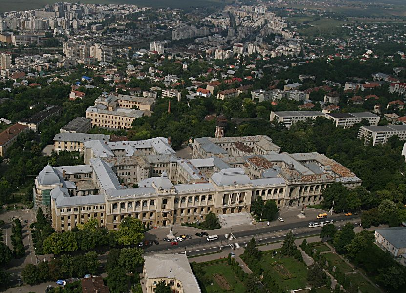 Iaşi , aerial view to the University „A.I.Cuza“.